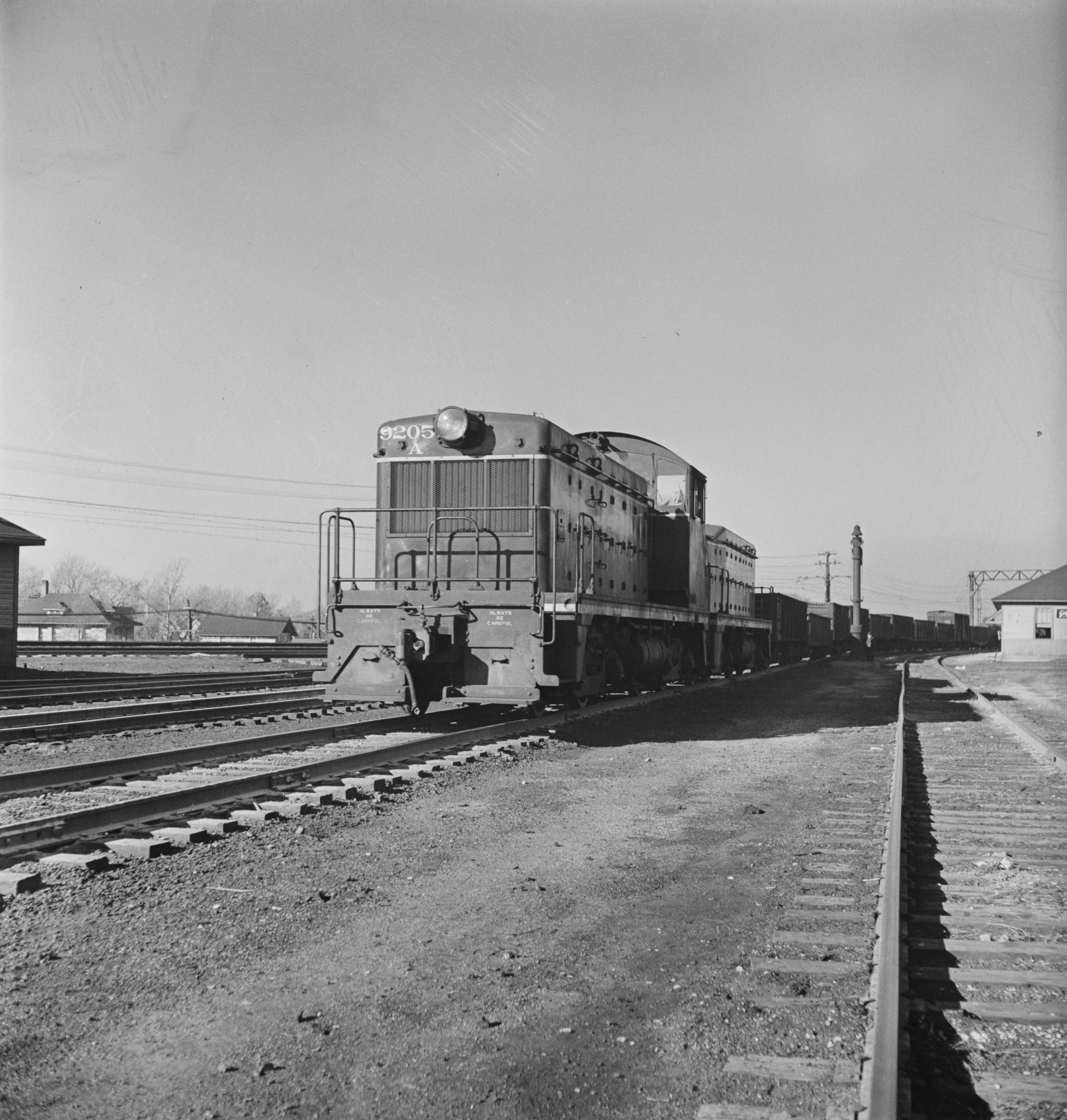 Original caption: "Chicago, Illinois. One of the giant diesel-electric locomotives at work at an Illinois Central" This is one of the three TR locomotives built. Serial number 9205.